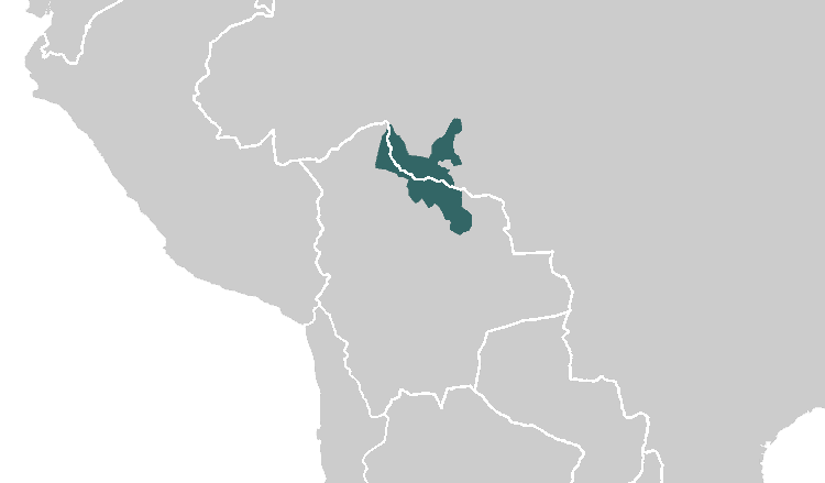 Chapakura-Wanham languages of Boliva and Brazil